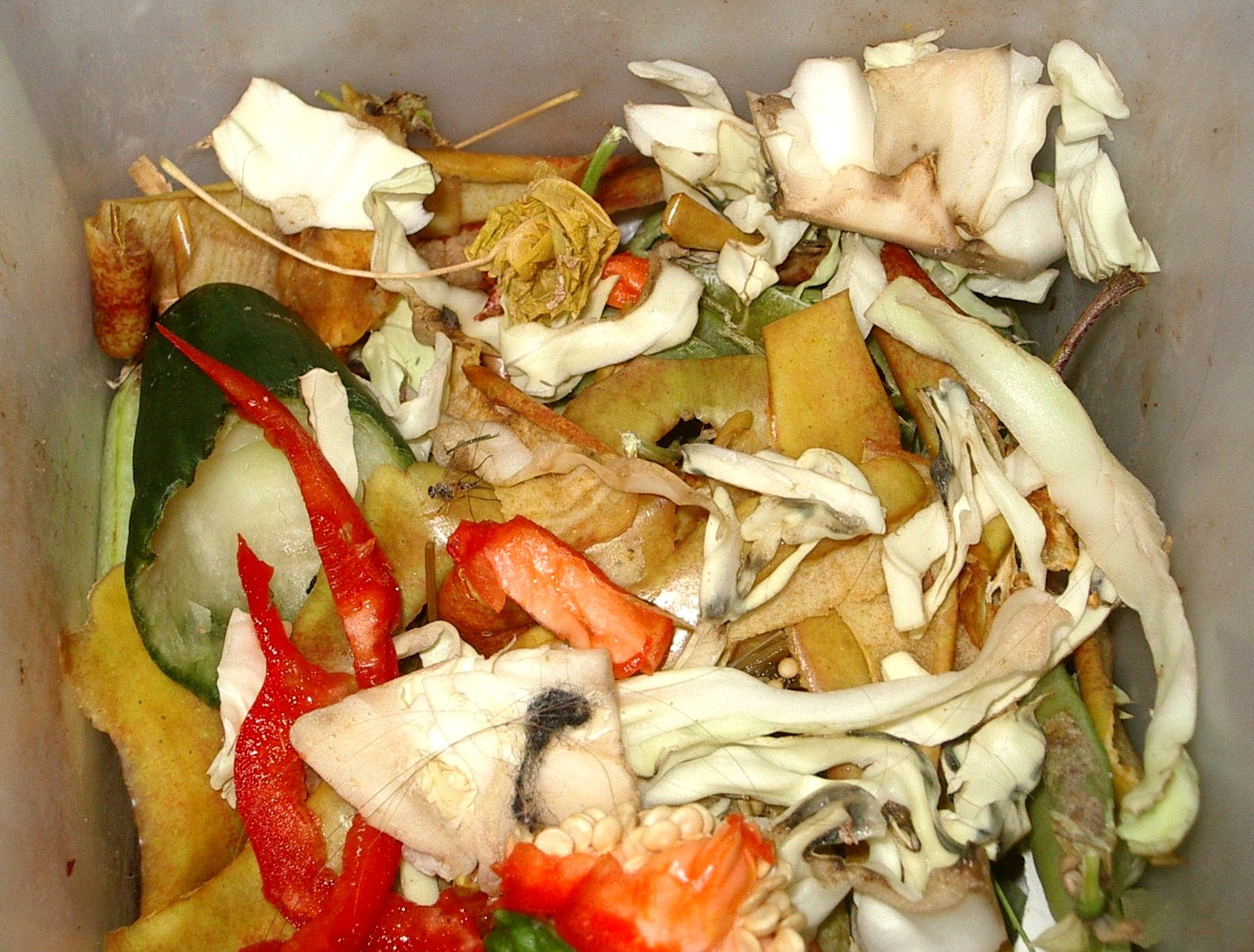 Biodegradable waste in a trashcan.